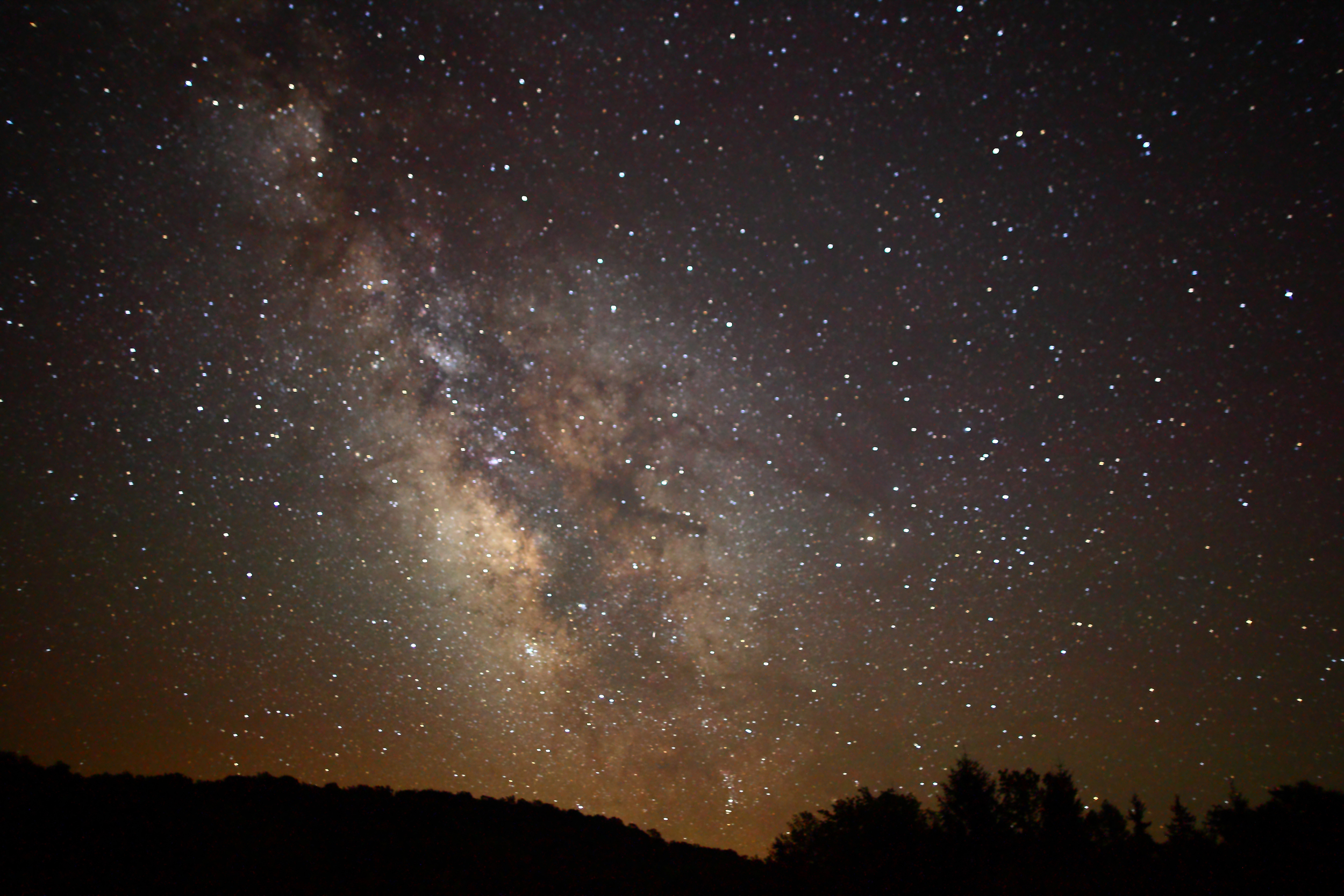 Going to visit the nearby Monongahela national forest is paradise for our family. The light pollution is very low here and offers some of the best night sky viewing on the entire east coast. The center of the Milky Way Galaxy from the mountains of West Virginia around 12:30 am on the 4th of July. My son and I were really excited to see this image. Our camera was able to see more stars than our eyes. Taken with a Canon 5D Mark II and a Sigma 28mm fixed at f/1.8 and 30 seconds exposure. If you republish our photography simply give our website credit. Astrophotography from the Mountains and Forests.